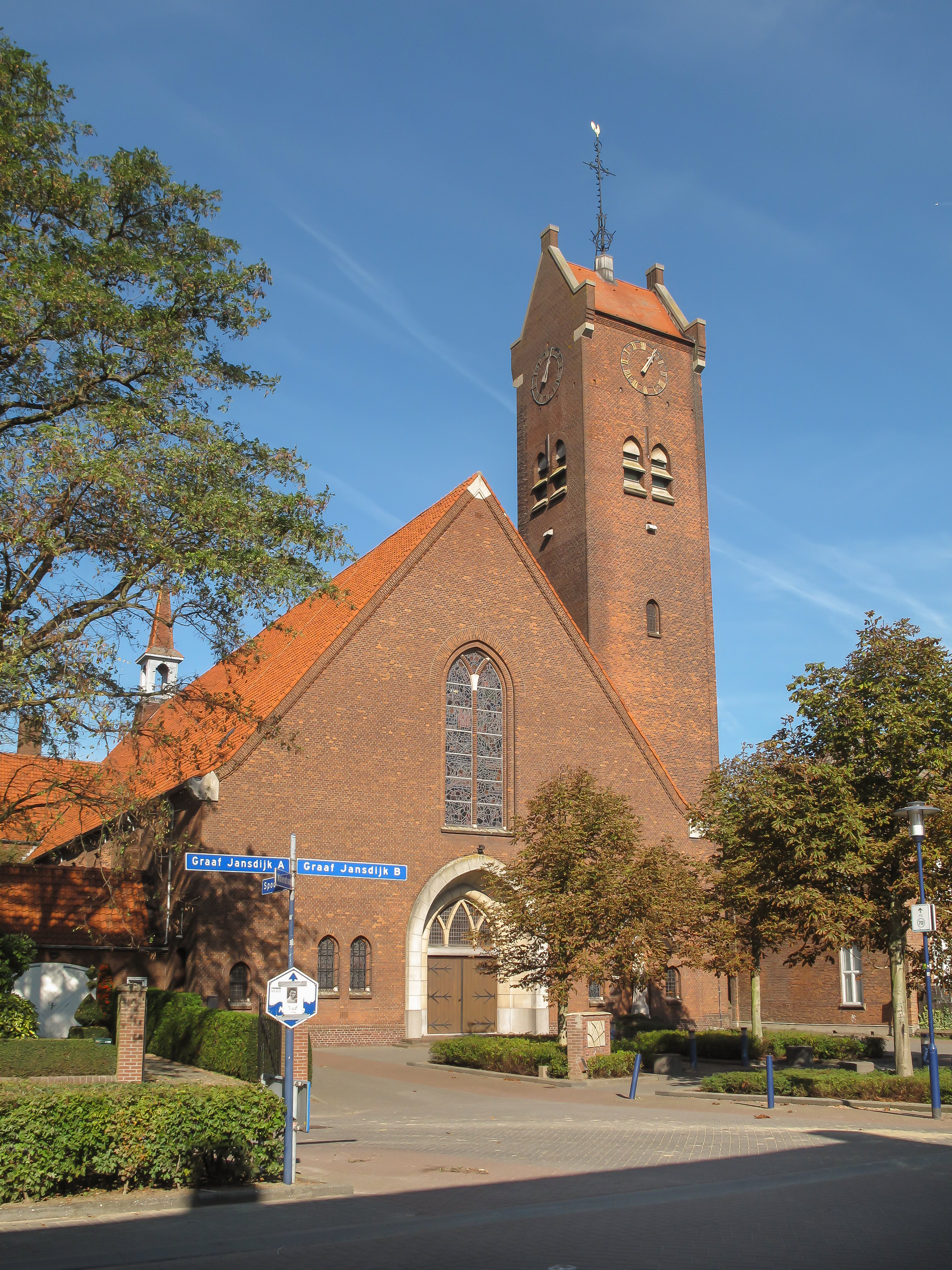 Westdorpe, church: Onze Lieve Vrouw Visitatiekerk